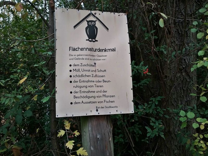 Old surface nature monument in the pond Friedrichsfelde north